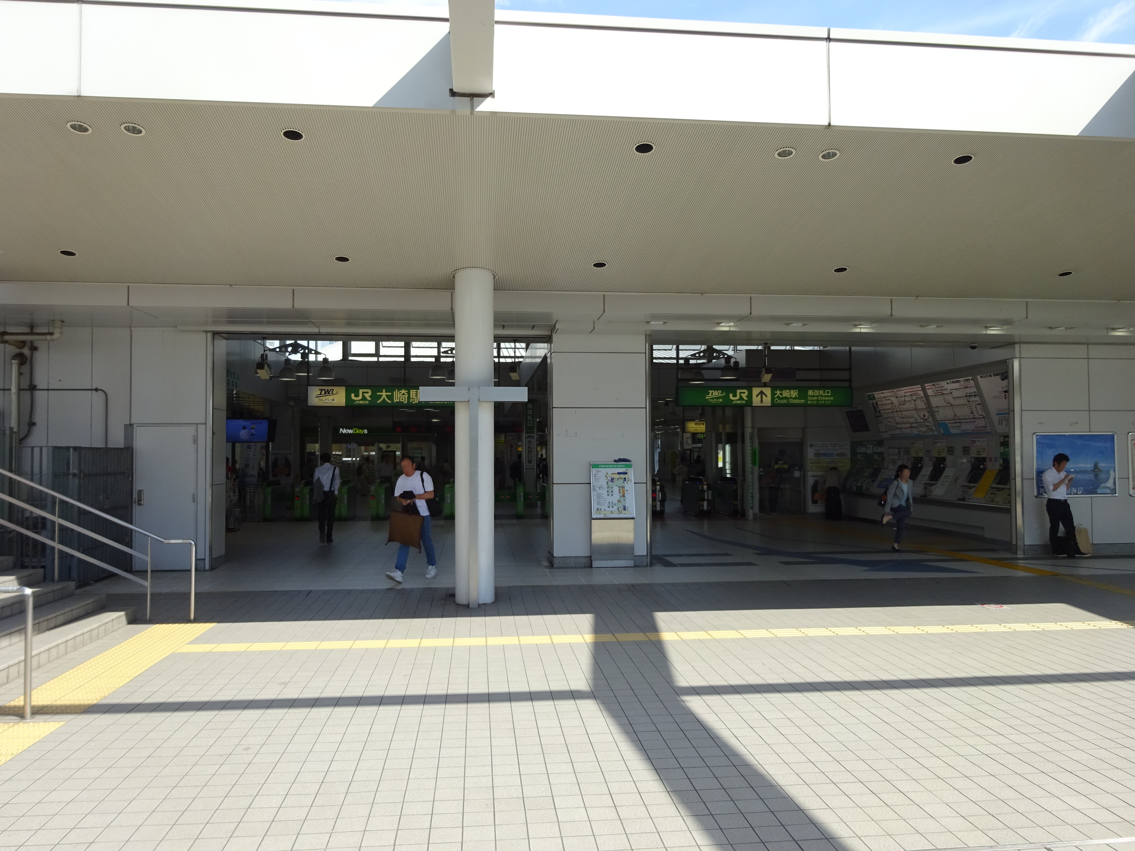 South Entrence of Ōsaki Station